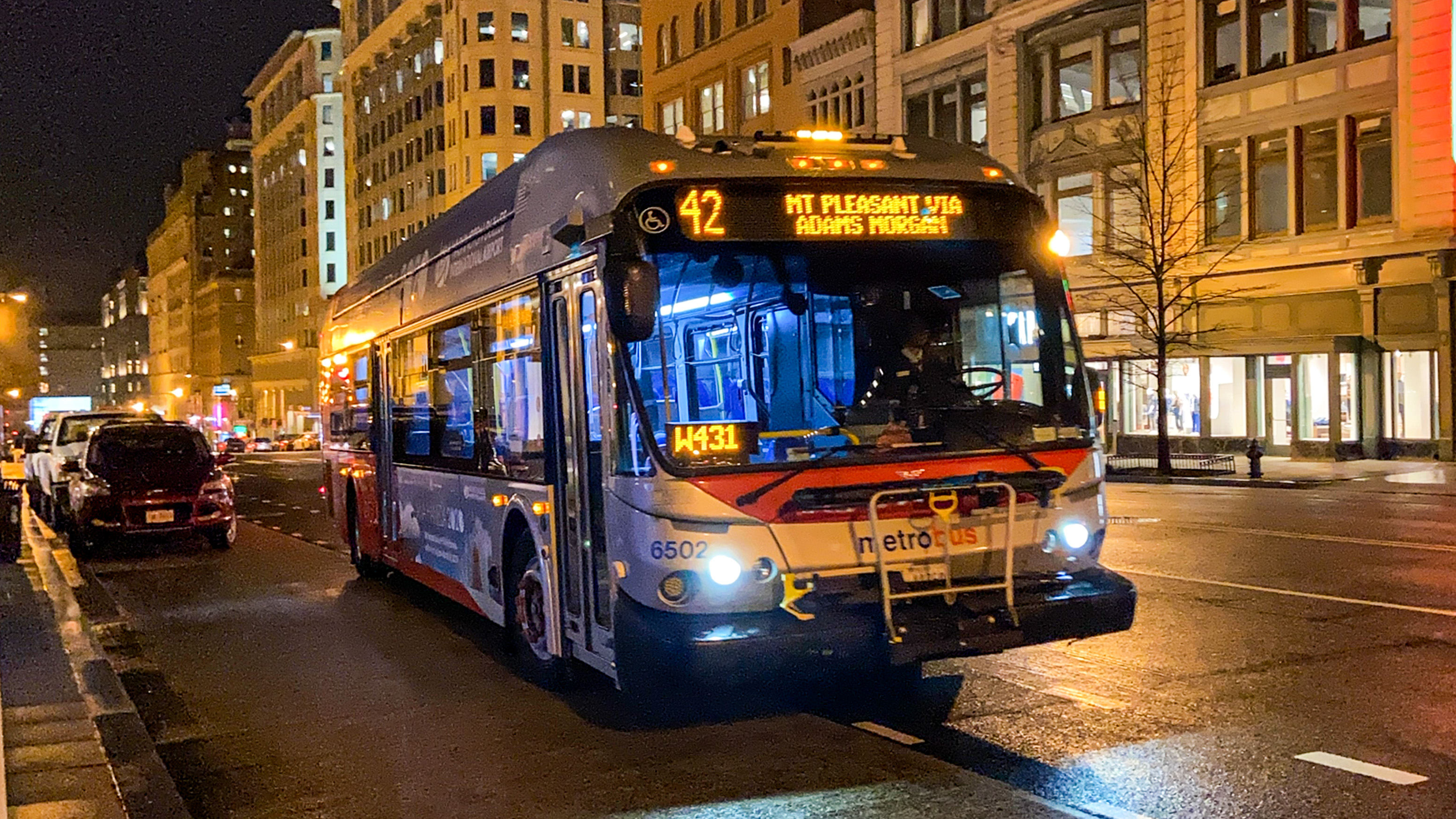 WMATA New Flyer DE40LFA 6502 on Route 42